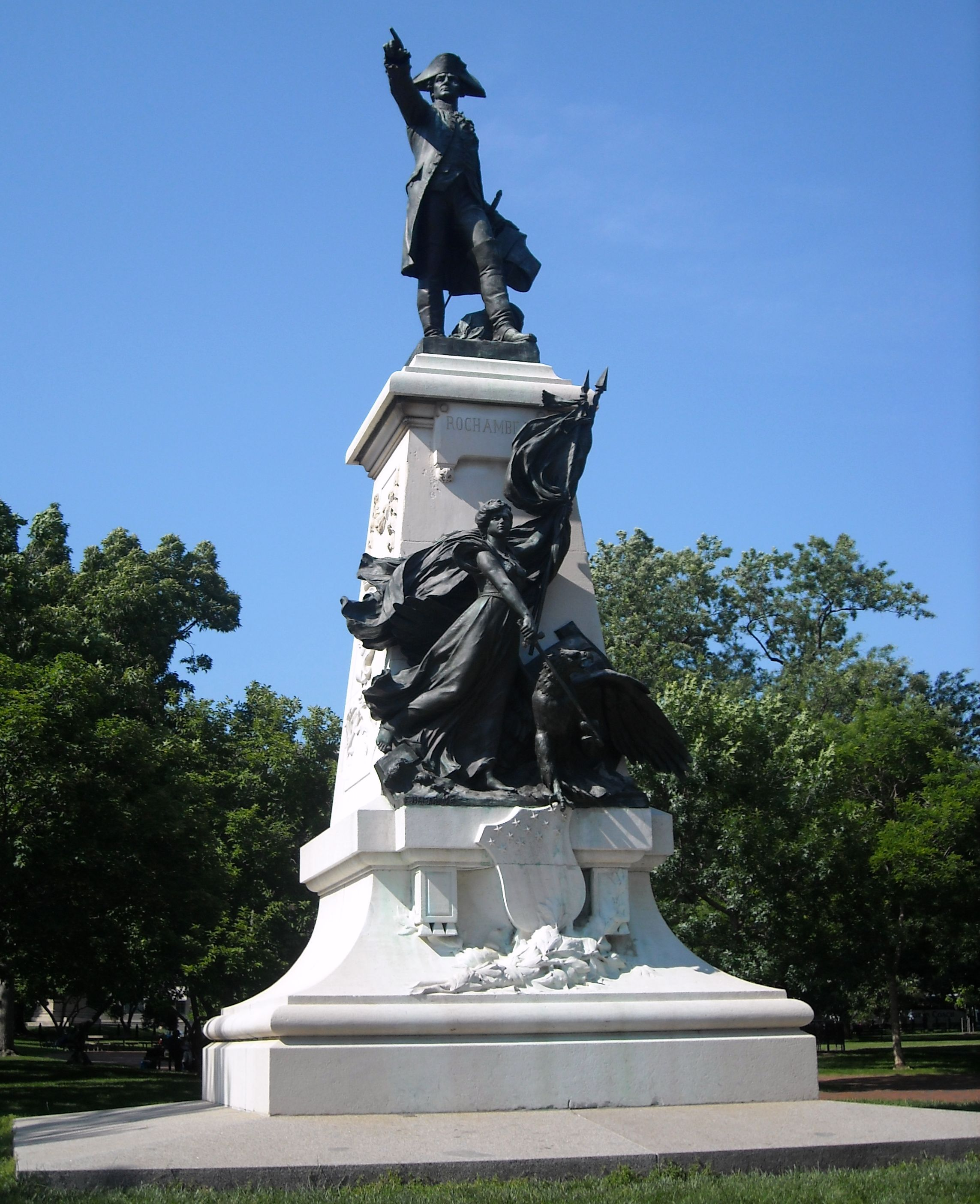 Comte de Rochambeau statue in Lafayette Park, Washington, D.C.